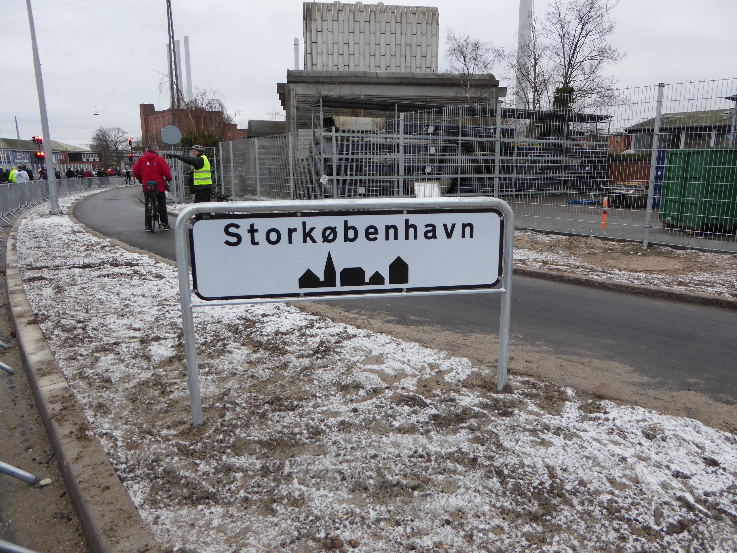 Opening of the highway Nordhavnsvej in Copenhagen. City limit sign on Storkøbenhavn (Greater Copenhagen).